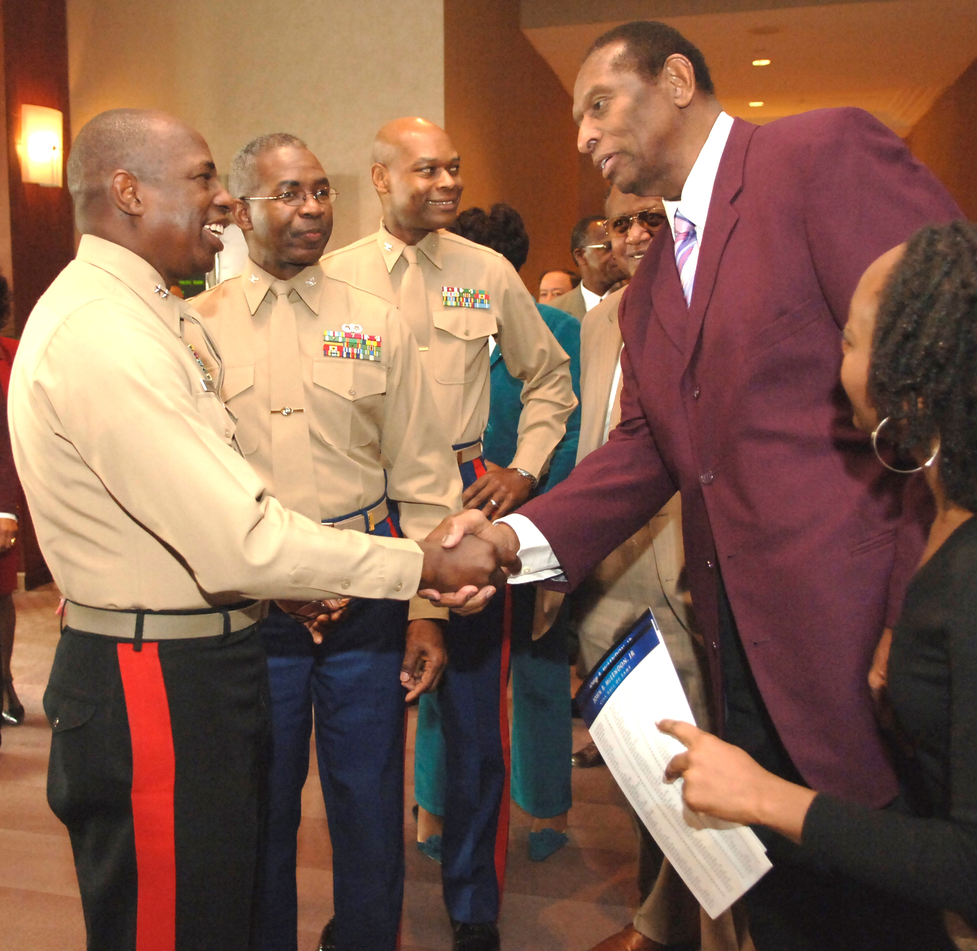 Major General Walter E. Gaskin, left, greets with basketball hall of famer, Earl "The Pearl" Lloyd during the CIAA Hall of Fame brunch, March 3, 2006. Lloyd was the first African-American to play in an NBA game.